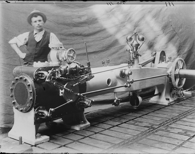 Part Of: Powerhouse Museum Collection General information about the Powerhouse Museum Collection is available at Persistent URL: Acquisition credit line: Gift of Clyde Engineering Pty Ltd, 1988